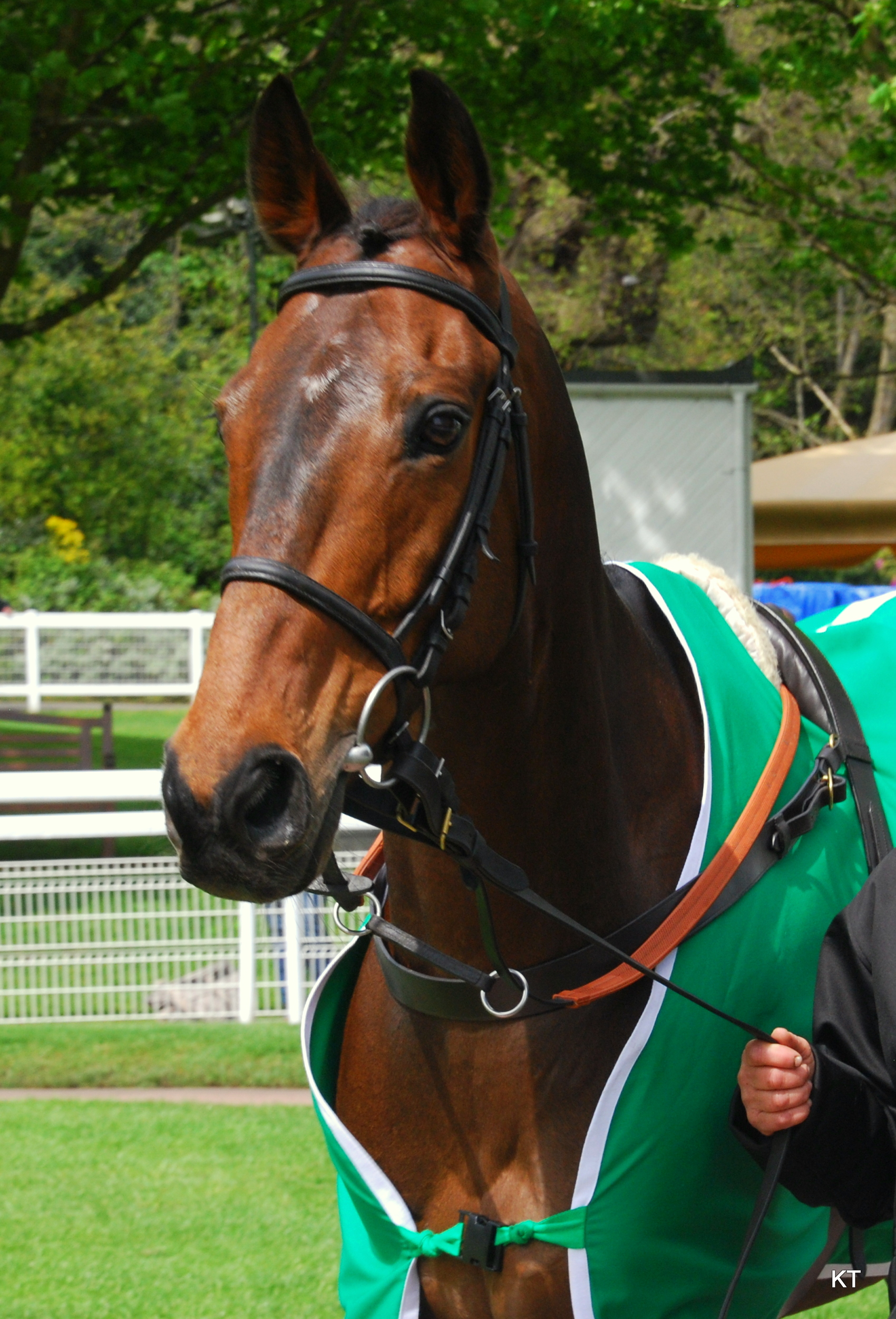 Parade of Champions, Sandown Park, April 2014